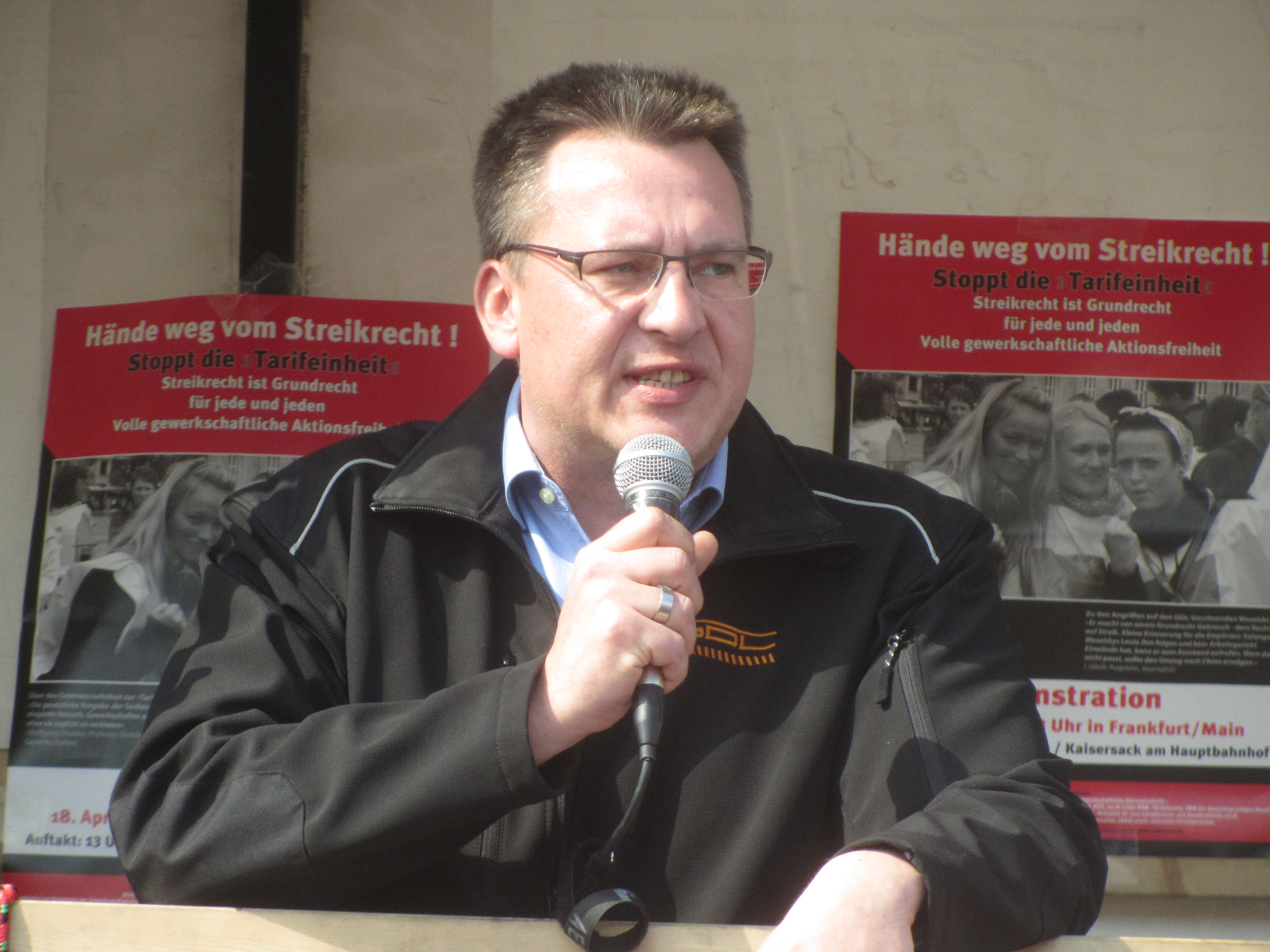 Norbert Quitter, deputy chairperson of the trade union GDL (Gewerkschaft deutscher Lokomotivführer) speaks at a rally in defense of the right to strike in Frankfurt/Main, Germany, on April 18, 2015